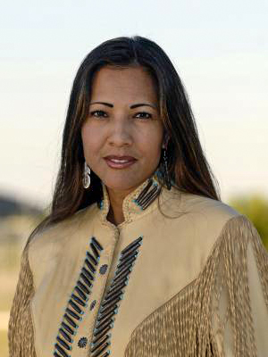 Mary Kim Titla in a modern buckskin jacket.